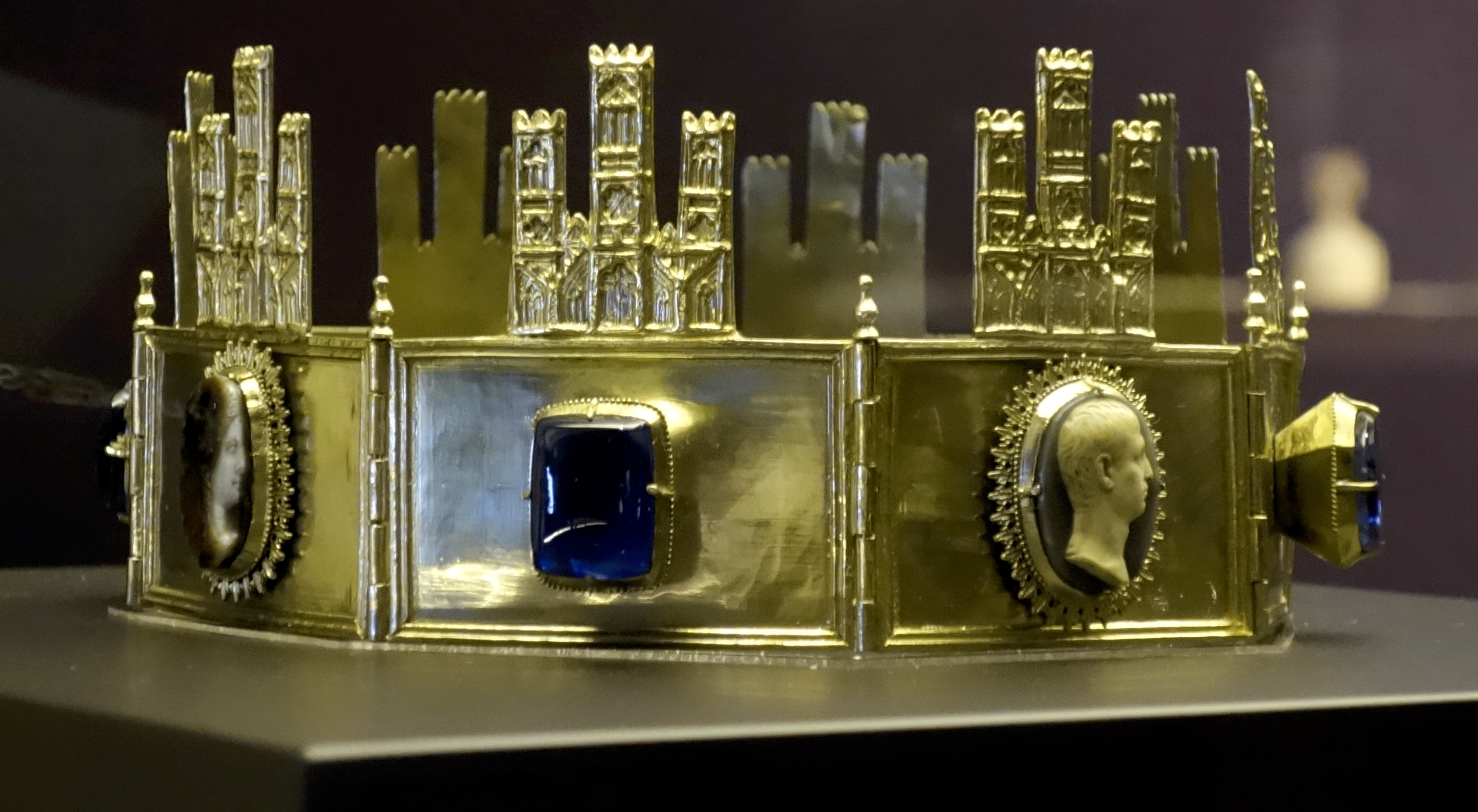 Crown of Sancho IV of Castile (1258-1295)